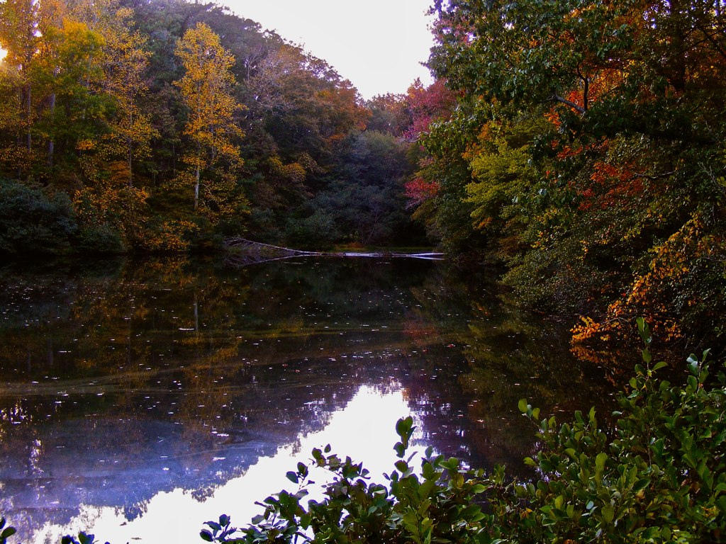 Chattahoochee National Park, Atlanta